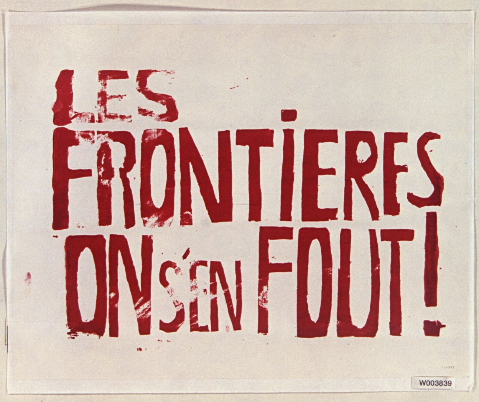 From the catalogue of anexhibition on French May 1968 protest posters: Les Affiches de mai 68 ou l'Imagination graphique. This exhibition was held at the Bibliothèque nationale de France (Paris) from 17 February till 31 March 1982. Permalink to the full scanned catalogue